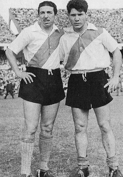 River Plate players Ángel Labruna (left) and Omar Sívori (right).